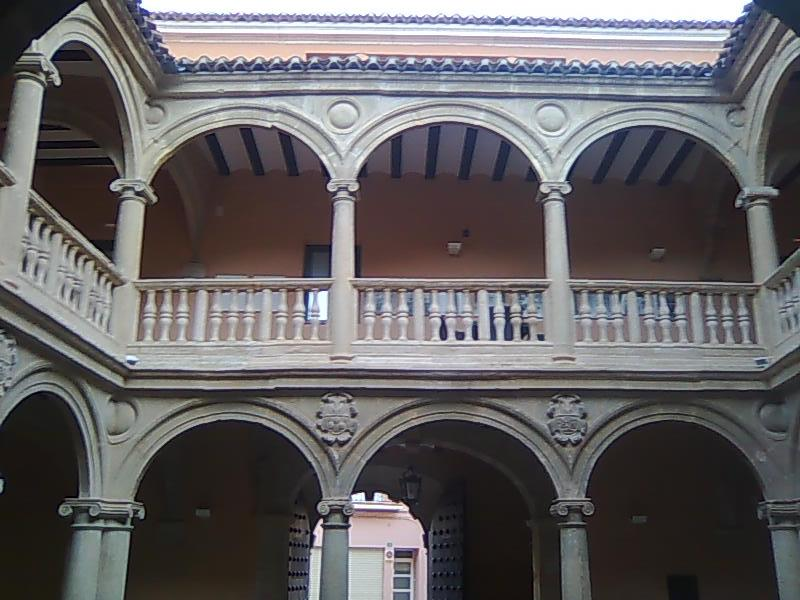 Courtyard of Town Hall (Almansa-Spain).